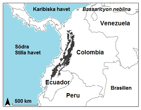 Distribution of Bassaricyon neblina "Olinguito", Ecuador, Colombia